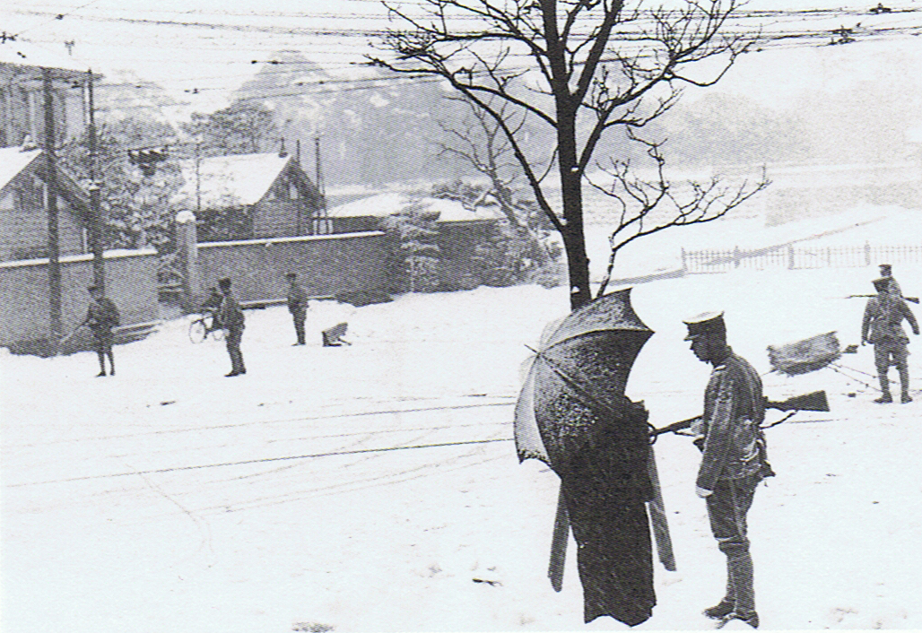 Rebel soldiers guarding Hanzomon Gate of the Imperial Palacefollowing the outbreak of the February 26 Incident.